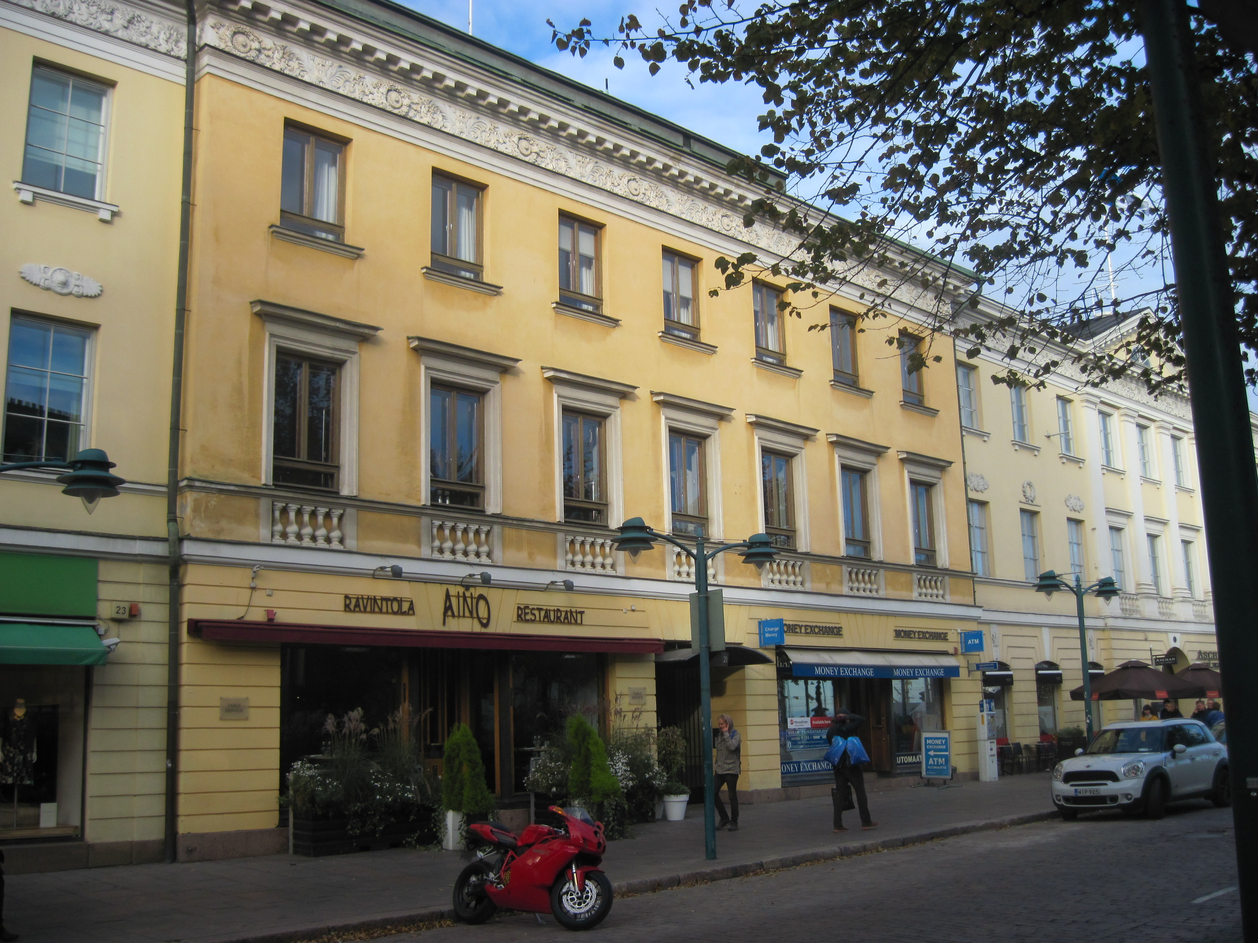 Cavonius House, Pohjoiseplanadi 21, Helsinki